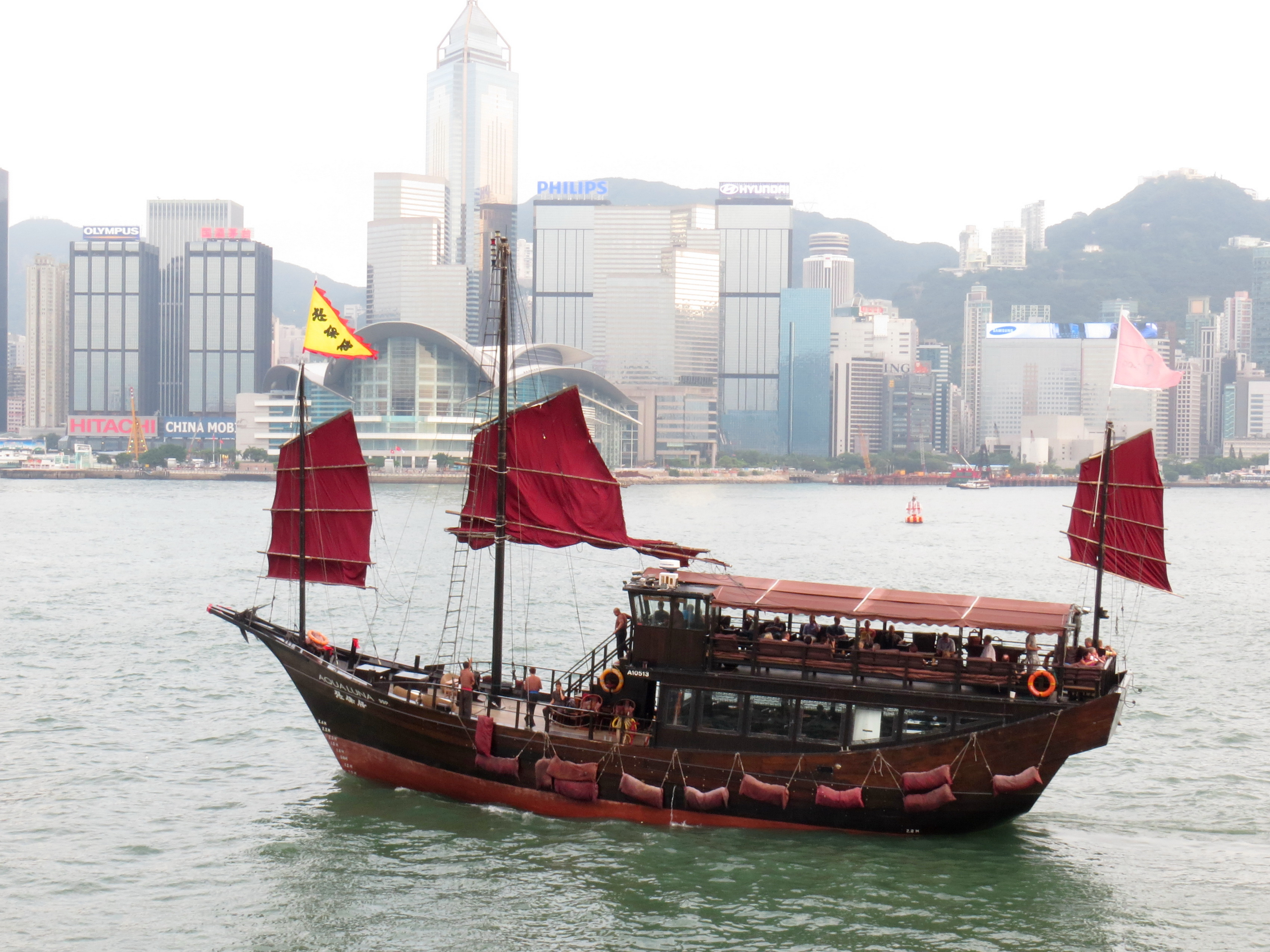 Aqua Luna, Victoria Harbour cruises, Hong Kong.